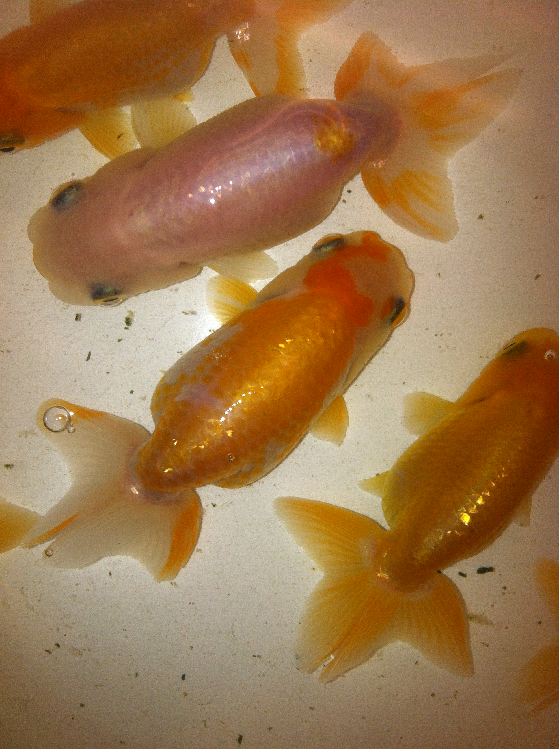 Ranchu